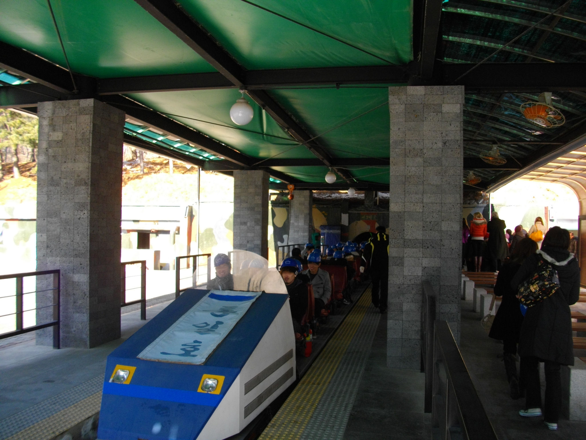 Monorail at Third Tunnel of Aggression